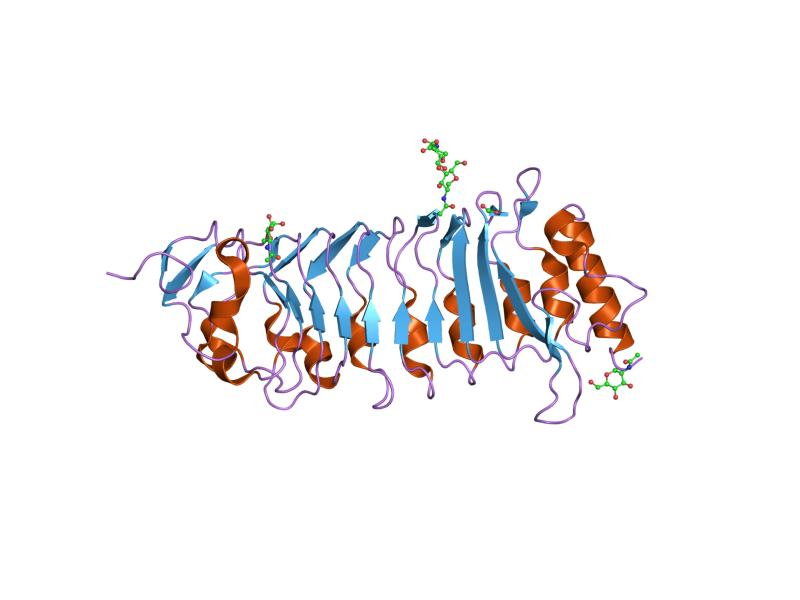 Cartoon representation of the molecular structure of protein registered with 1ogq code.